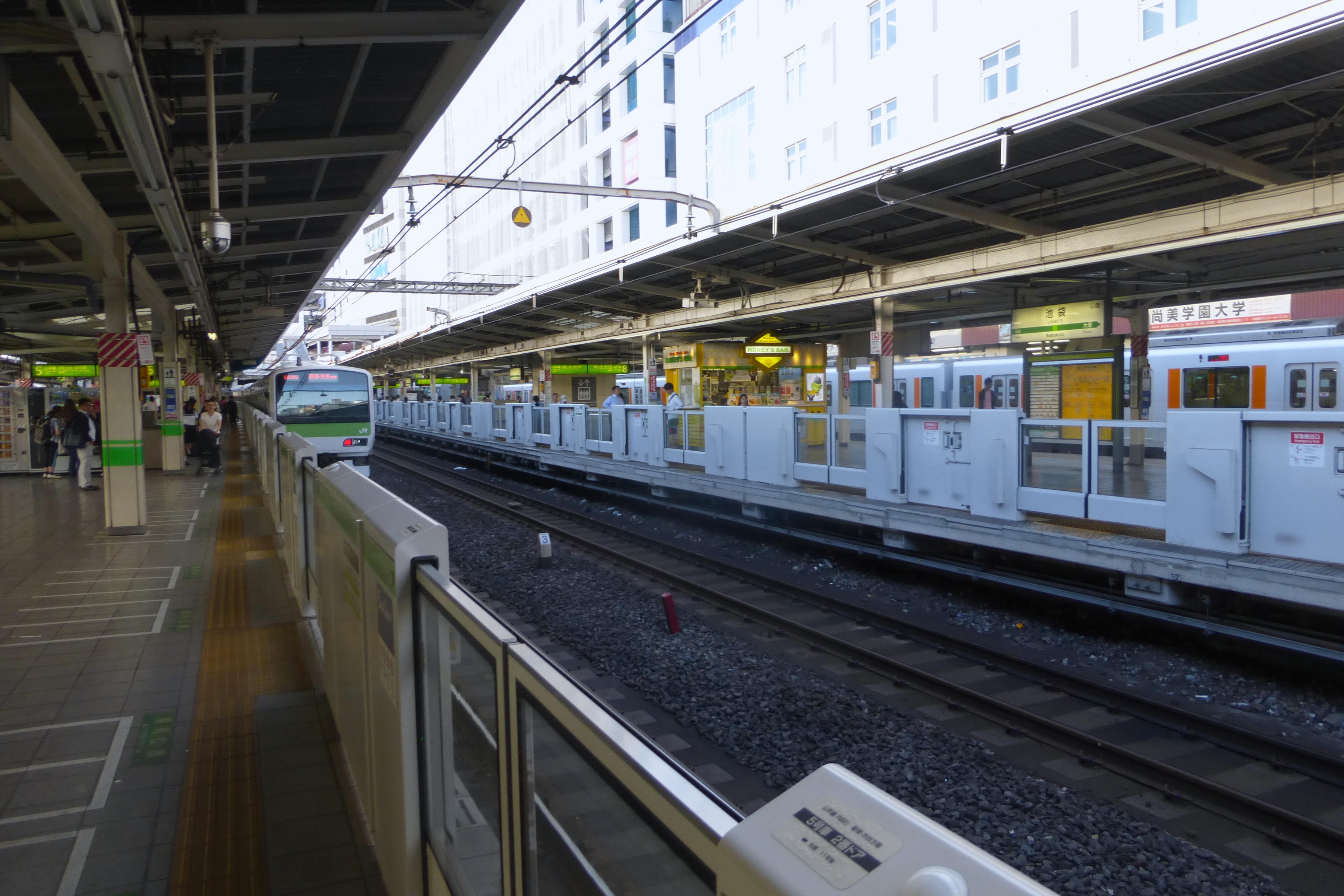 The Yamanote Line platforms at Ikebukuro Station in Tokyo, looking south